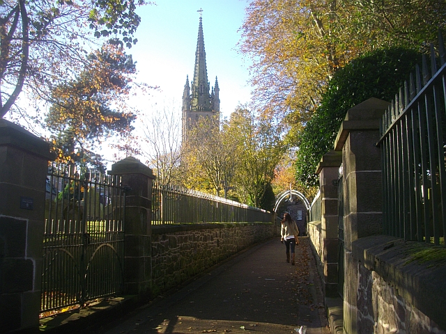 Footpath to St. Andrews, Montrose Walking up from Baltic Street.